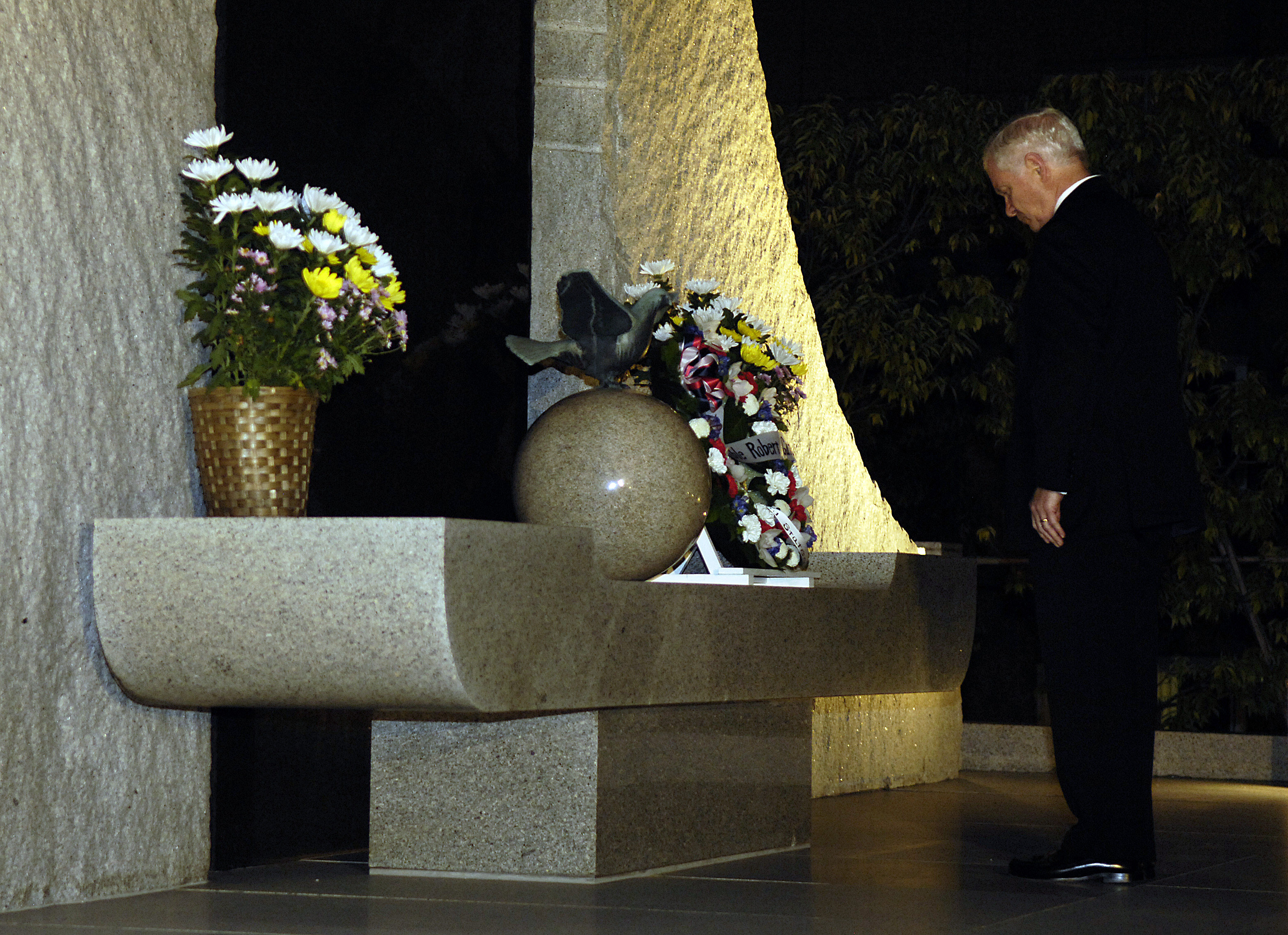 Robert Gates, Secretary of Defense, participated in a wreath-laying ceremony at the Ministry of Defense in Shinjuku Ward, Tōkyō Metropolis on November 8, 2007.